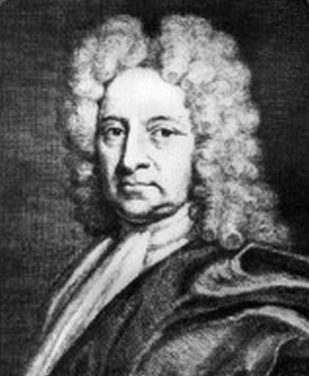 Edmond Halley